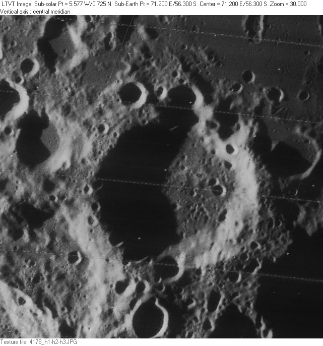 Crater Hanno. Detail from Lunar Orbiter IV-178H. High resolution scans from the USGS Lunar Orbiter Digitization Project remapped to a north-up aerial view by LTVT.